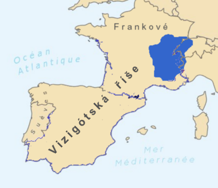 Map of Burgundy in 5th century.